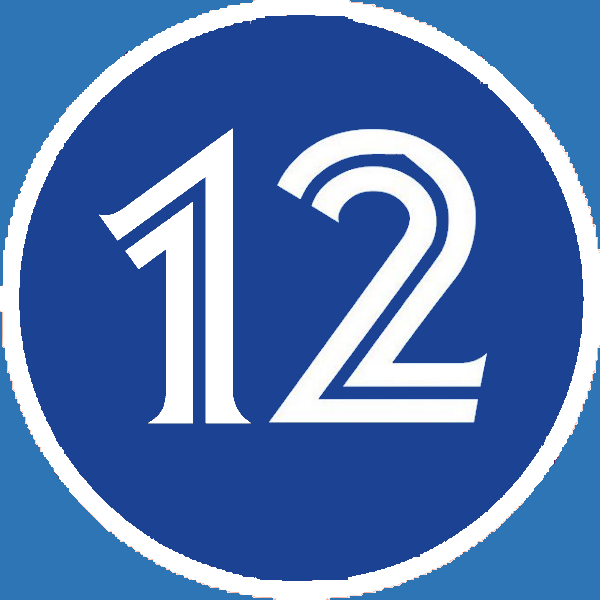 Toronto Blue Jays #12, retired.